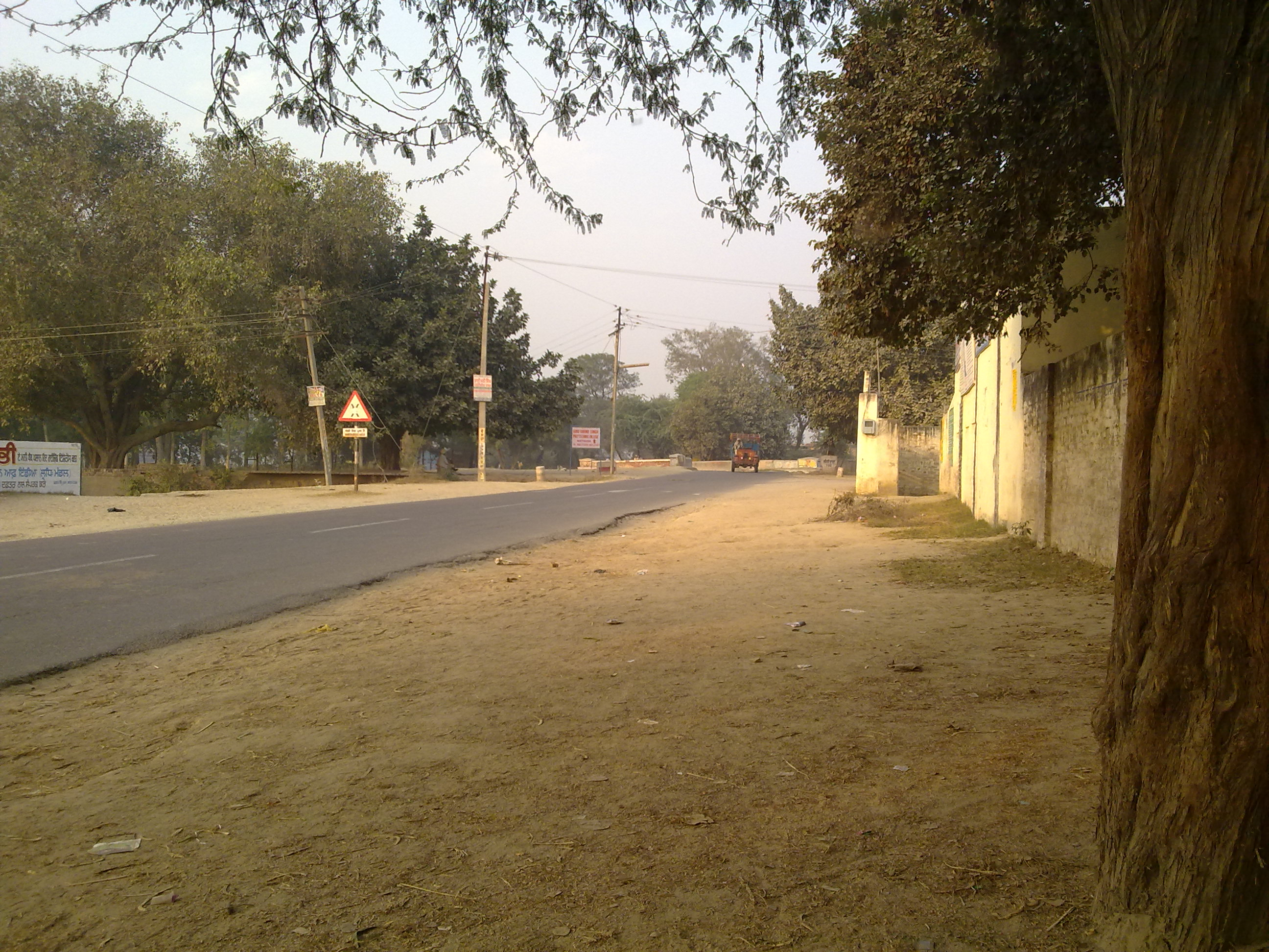 Govt High school and canal bridge